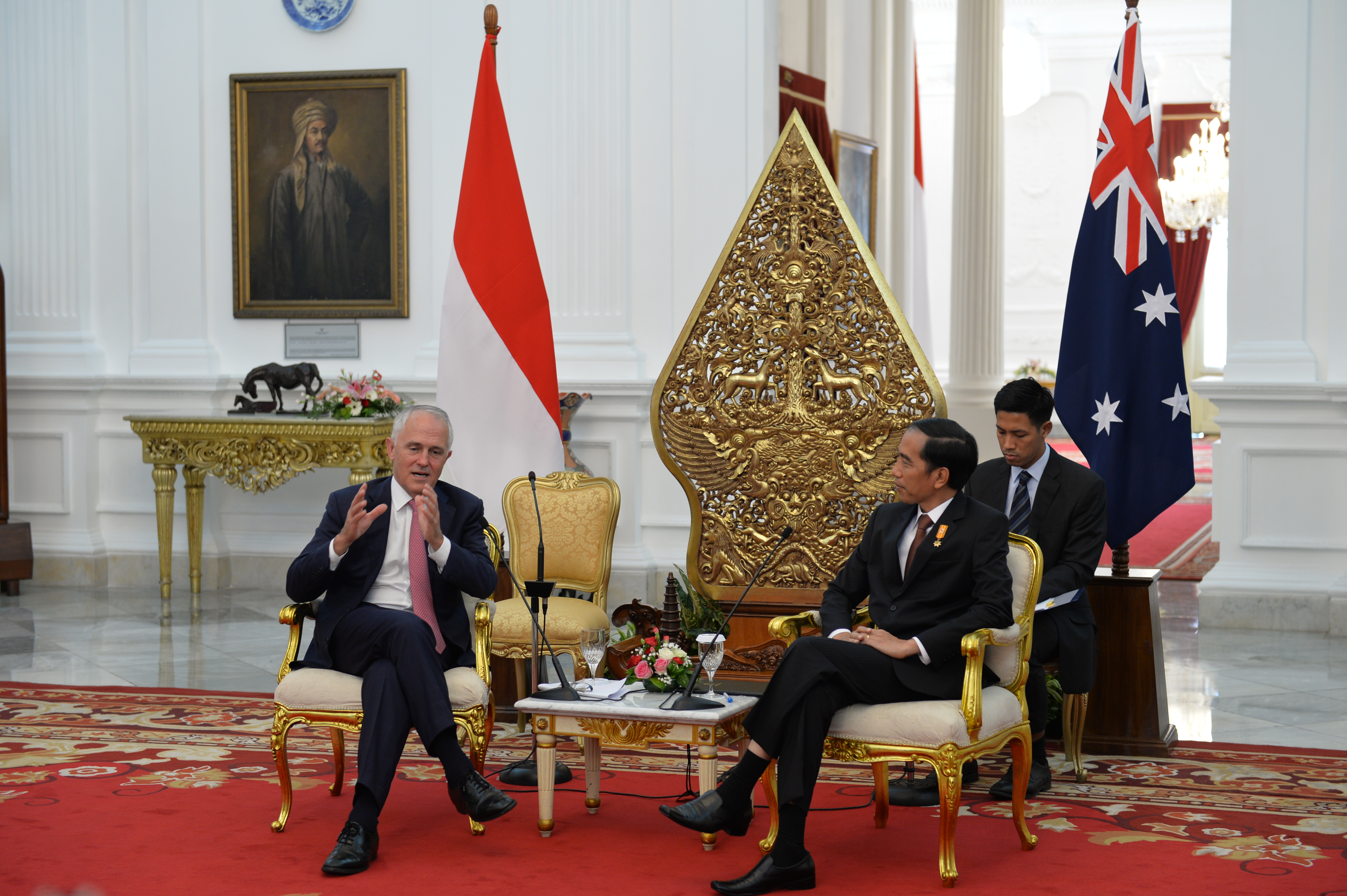 Malcolm Turnbull (Prime Minister of Australia) with Joko Widodo (President of Indonesia) at the State Palace in Jakarta for a bilateral meeting.